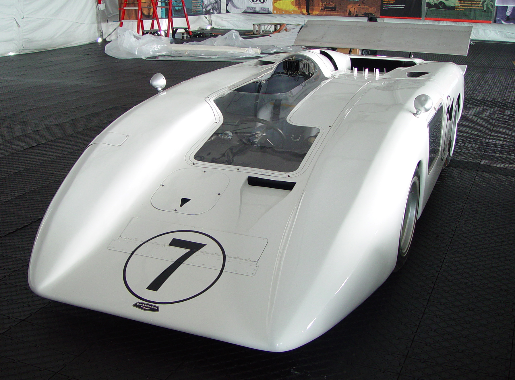 Chaparral 2H at the 2005 Monterey Historic